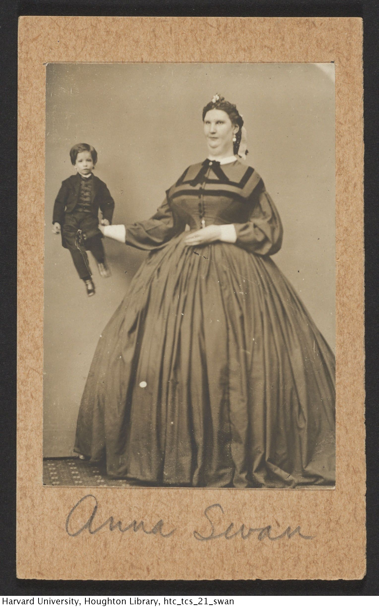 Photograph of giantess Anna Haining Bates (née Swan).